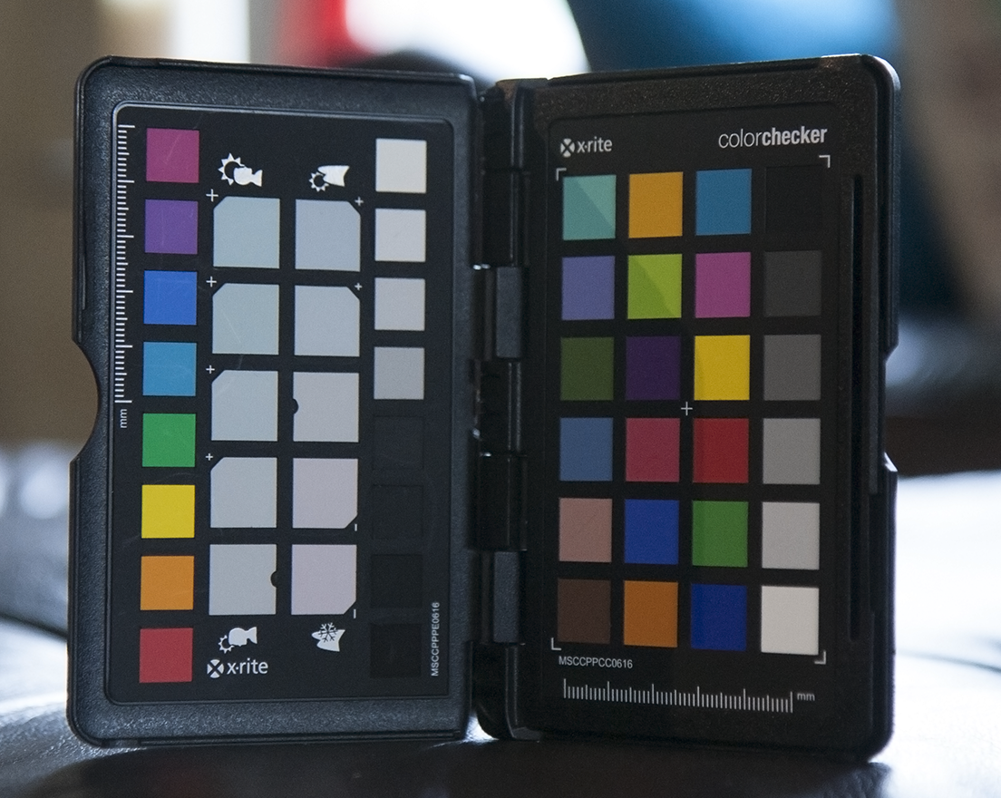 A sample image of the Passport model of the X-Rite ColorChecker. Taken with an EOS 20D; ISO1600, f/2.8, 1/30s.